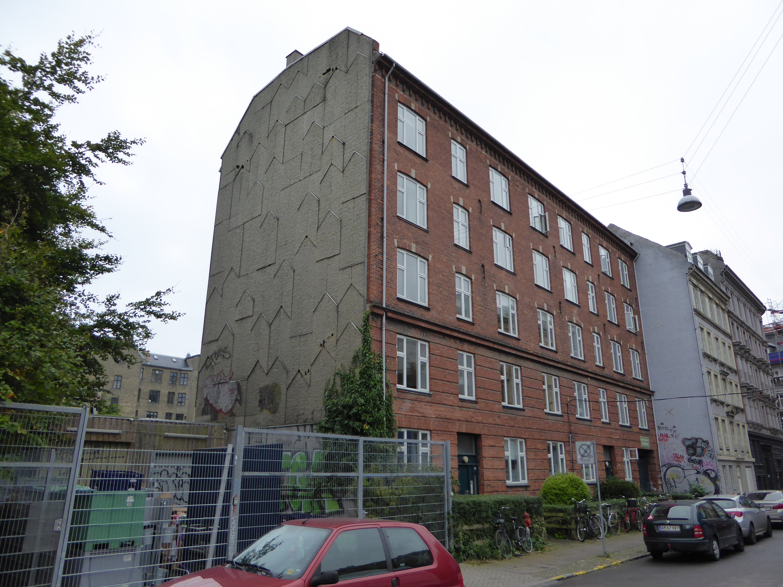 Apartment building at Uffesgade in Nørrebro in Copenhagen.